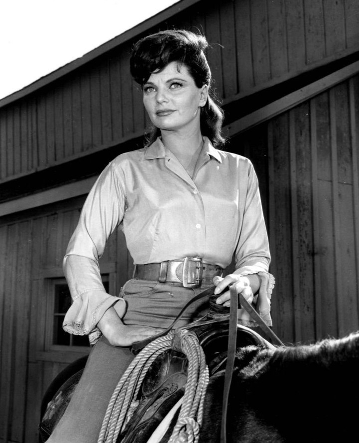 Photo of actress Geraldine Brooks from a guest appearance on the television program The Virginian.